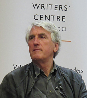 The British novelist and literary scientist Christopher Bigsby at Worlds Writers Conference held by Writers' Centre Norwich at the University of East Anglia